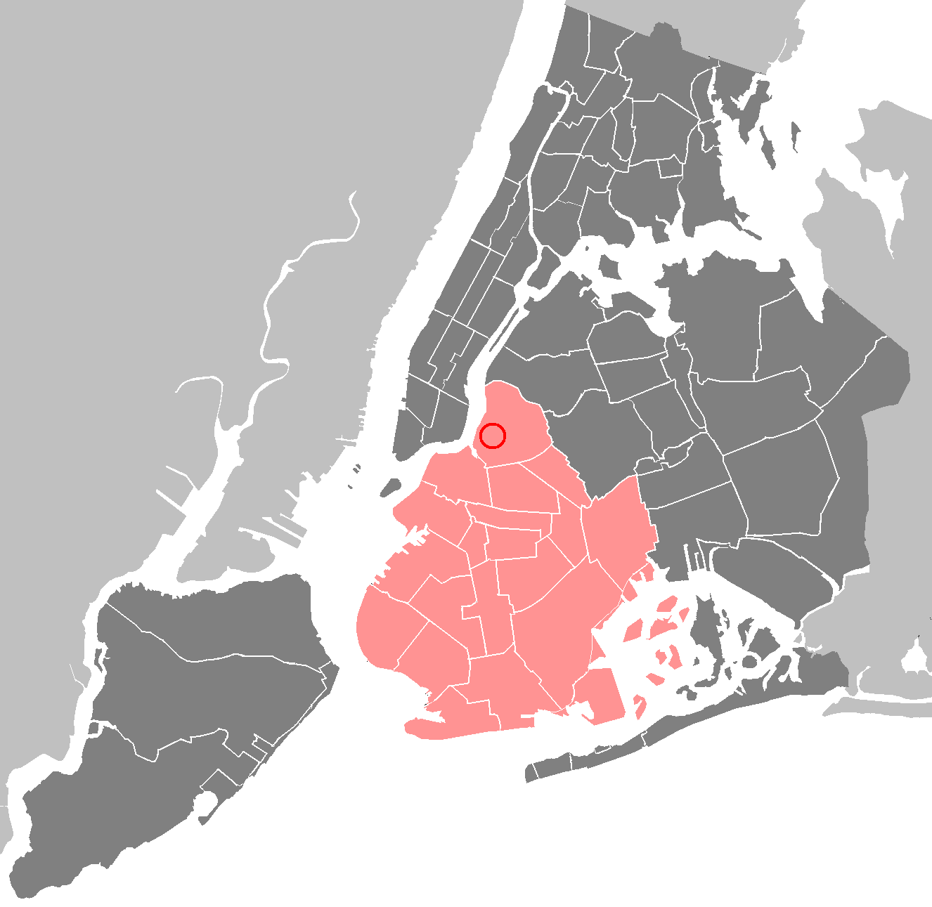 Maps of New York City: New York City - Brooklyn - Williamsburg.PNG